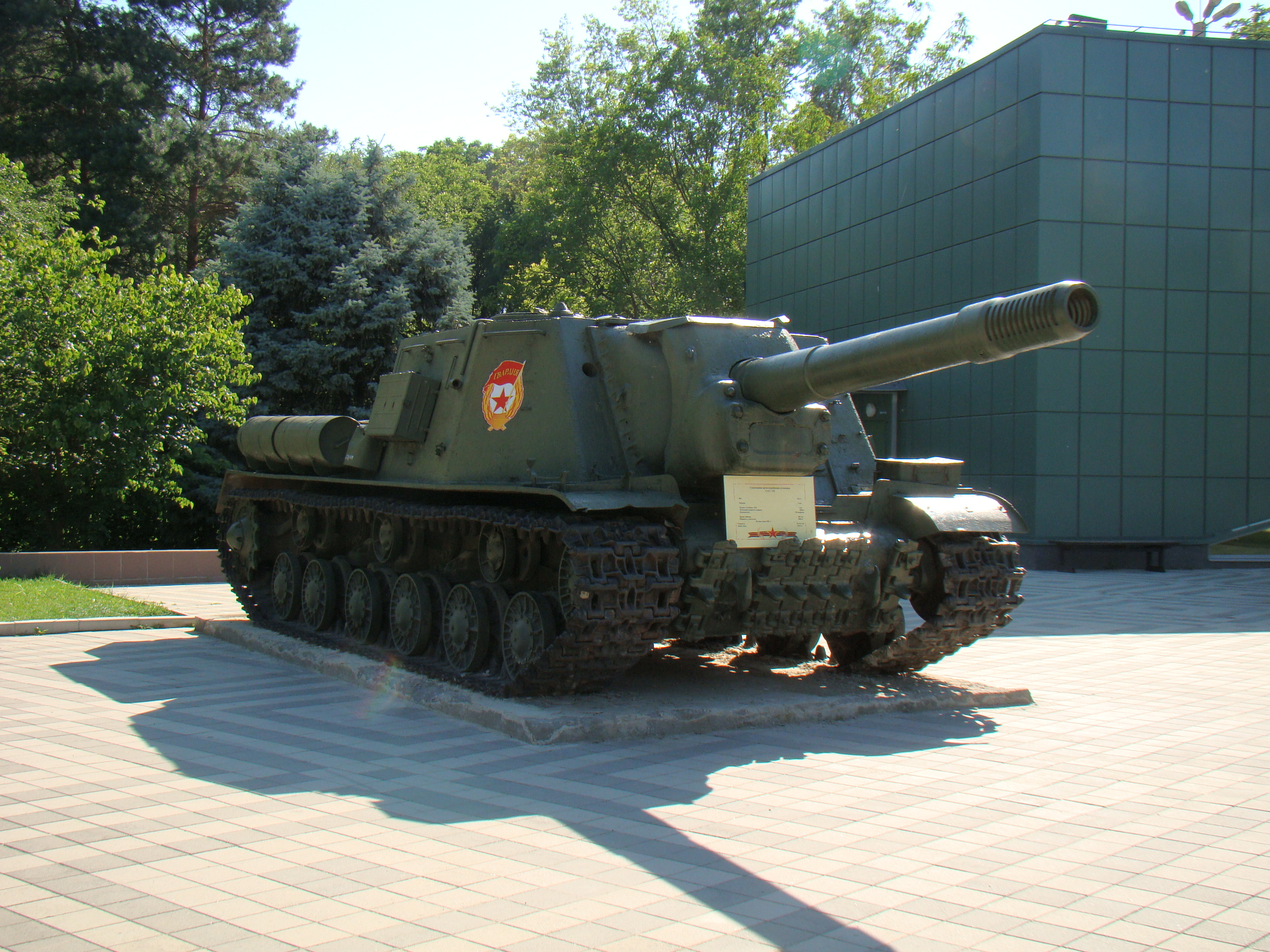 Музей военной техники "Оружие Победы". Парк культуры и отдыха имени 30-летия Победы, Краснодар. This file contains images of museum objects that are included in the Museum fund of the Russian Federation, or images of Russian museums buildings and symbols The Russian Museum Law, article 36, restricts anyone from: using images of museum objects and collections; buildings, museums and sites on museum grounds; and the names and symbols of museums; — on replicated products and consumer goods without authorization by the museum in question. English | русский | +/−